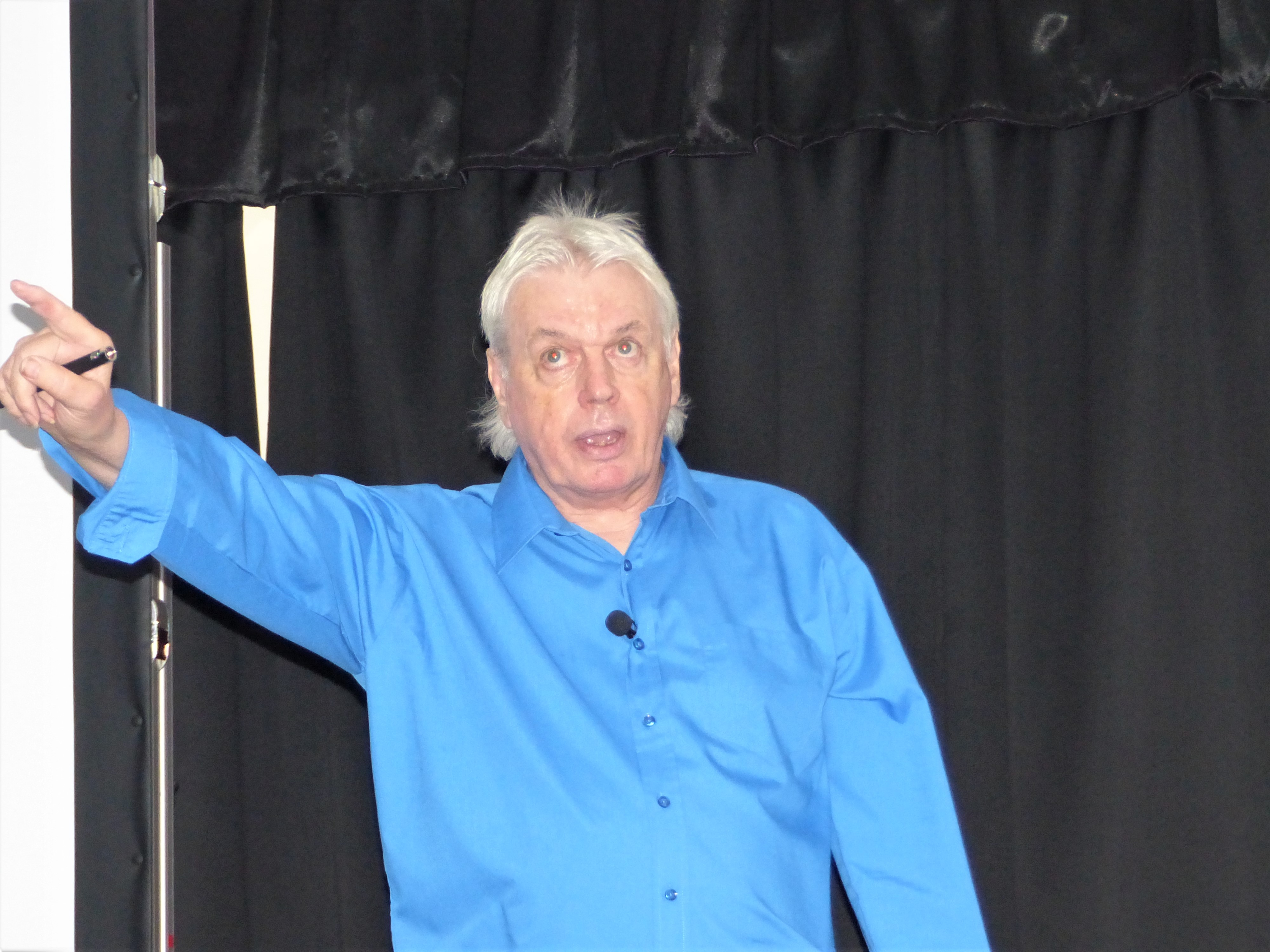 David Icke giving a lecture in Budapest on the 19th of October, 2018. Lurdy house, Budapest, Central Europe.